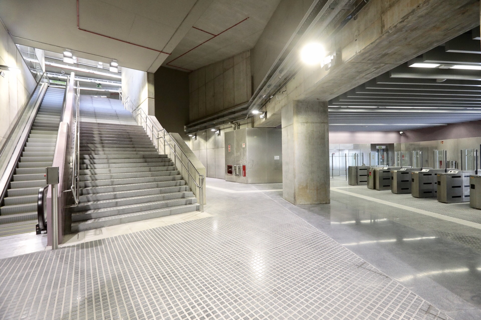 © Foto: Ajuntament de Sabadell / Juanma Peláez